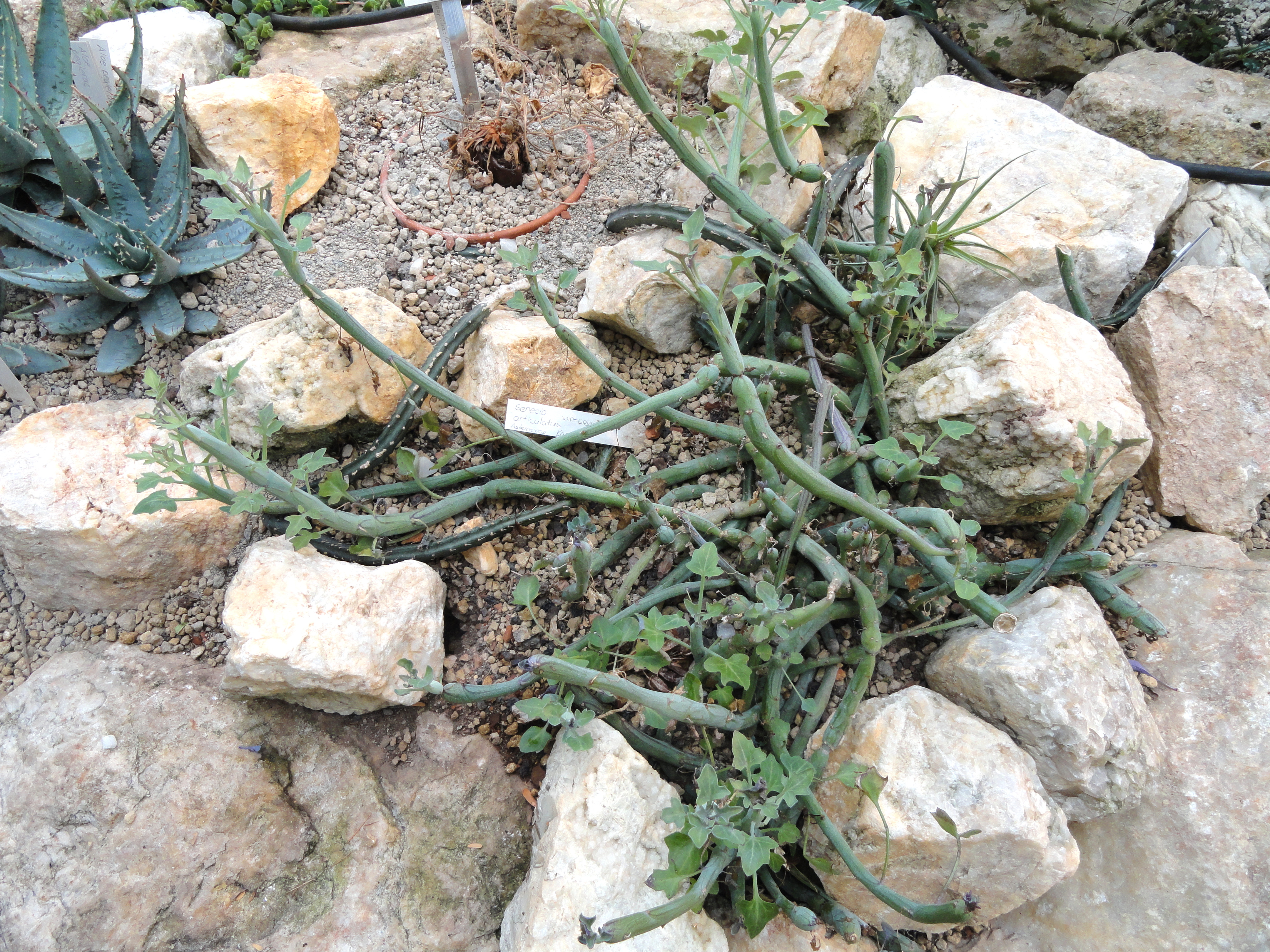 Botanical specimen in the Palmengarten, Frankfurt am Main, Germany.